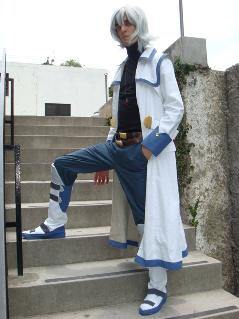 A guy cosplaying Soma Cruz, from the videogame Castlevania: Aria of Sorrow.